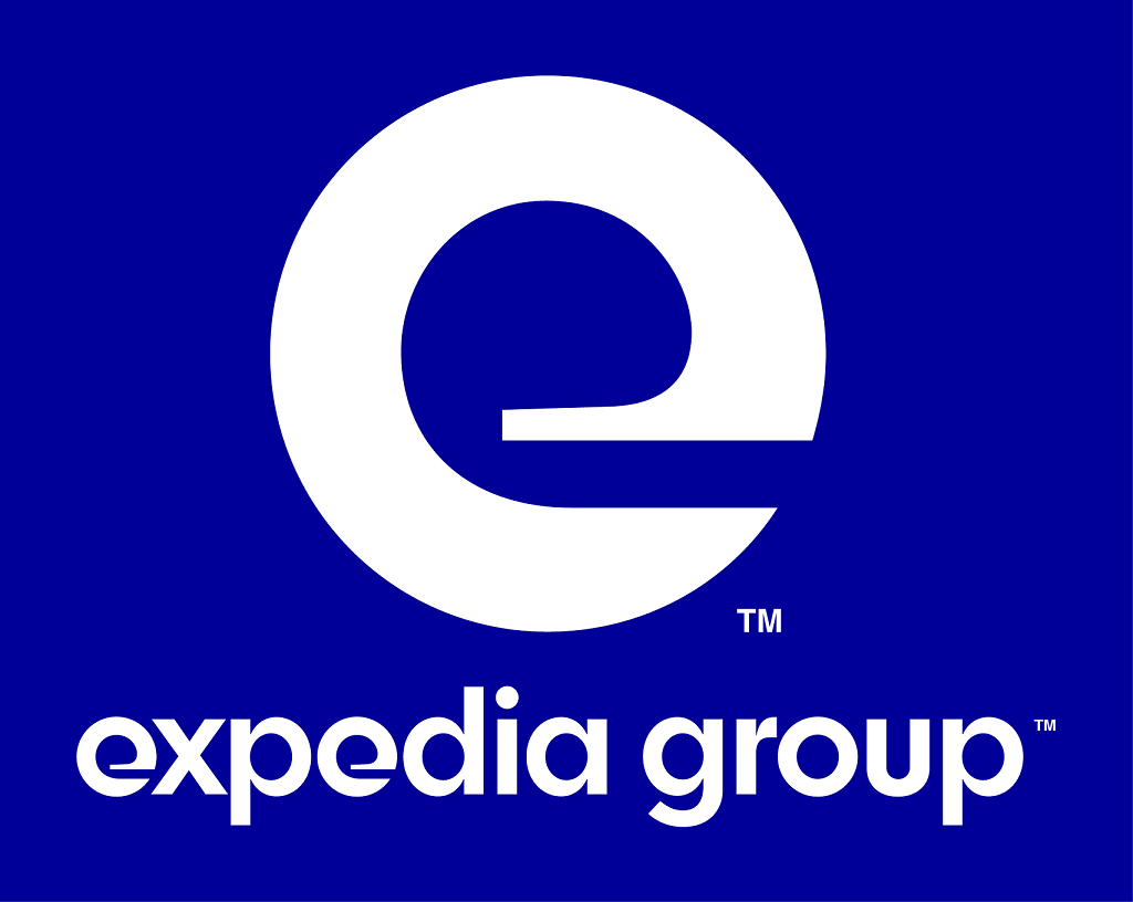 This is Expedia Group's new logo according to their website.